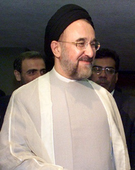 Mohammad Khatami, Iranian former President (1997-2005)